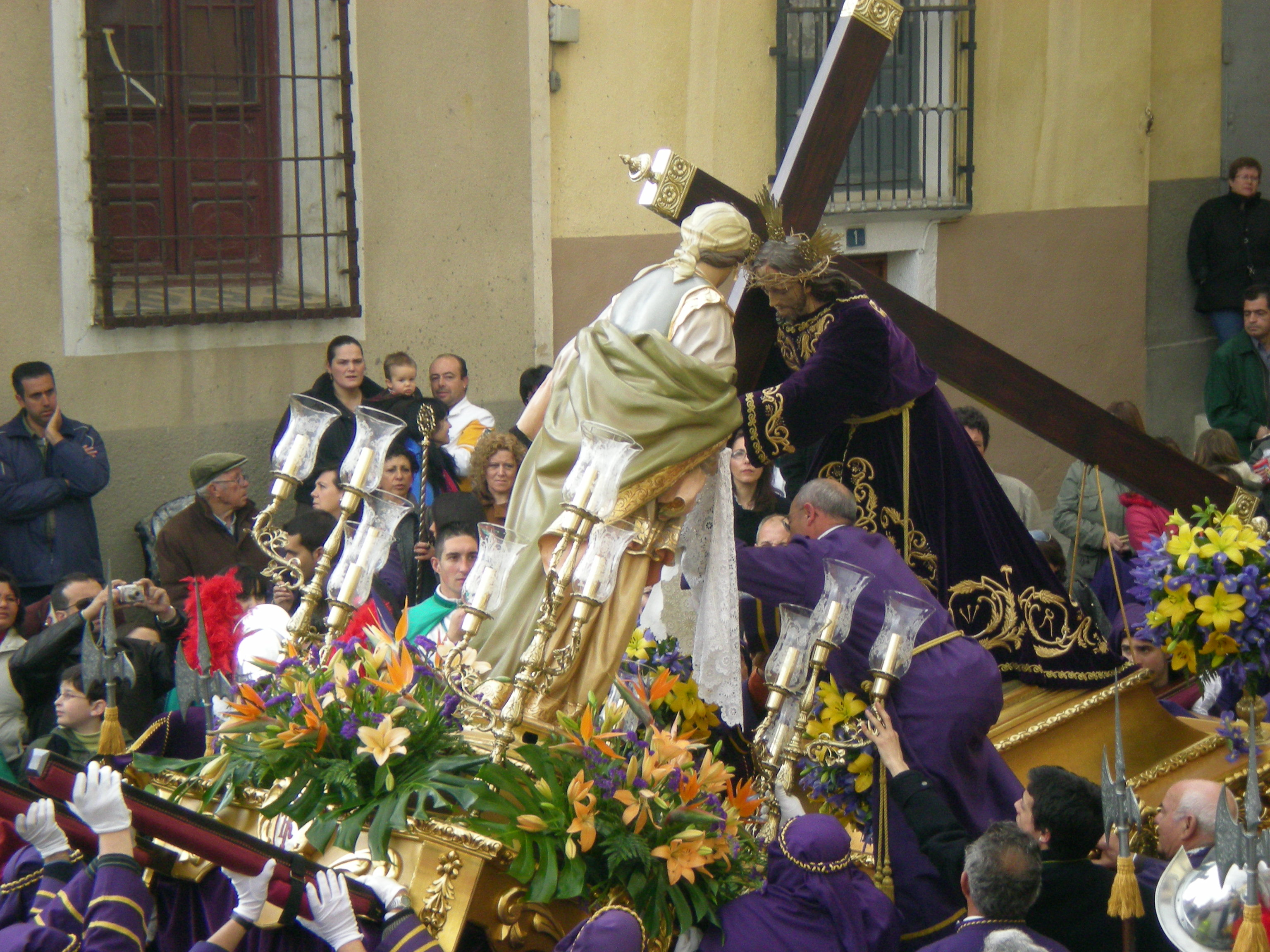 Holy Meeting during the Procession of Good Friday in Chinchilla (Albacete, Spain)